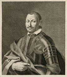 Annotated engraving of Jacopo Inghirami (1563-1623) by Giulio (Giuliano) Traballesi (1731-1812). Engraving in turn based on an earlier portrait from the Imperial Gallery of Florence (particular). Text in Italian reads: Iacopo Inghirami Patrizio Volterrano Marchese E Ammiraglio Delle Galere Del Granduca Di Toscana nato del MDLXIII morto il di 3 Gen'o MDCXXIII Al merito sing've dell' Ill'mo'e Rmo Mons're Iacopo Gaetano Inghirami Patrizio Volterrano, Vescovo d'Arezzo, e Conte di Cesa ec. ec. Agnato del suc'o Preso dal Ritratto dell' Imperial Galleria di Fierenze (particolare) Translation in